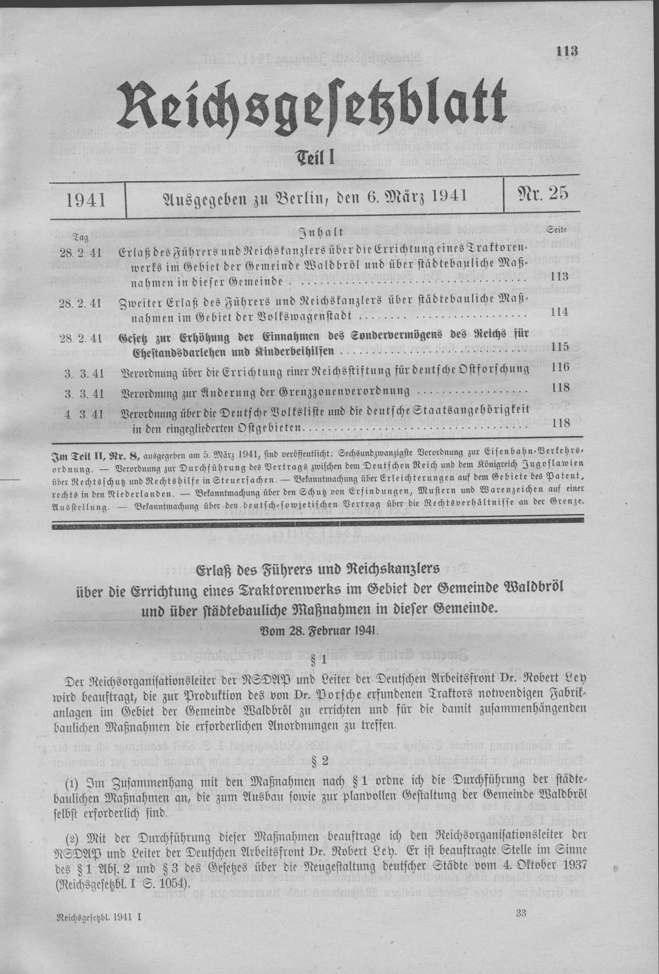 Scan from the Imperial Law Gazette of Germany, 1941, part 1